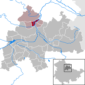 Riethgen in Thuringia - District Sömmerda